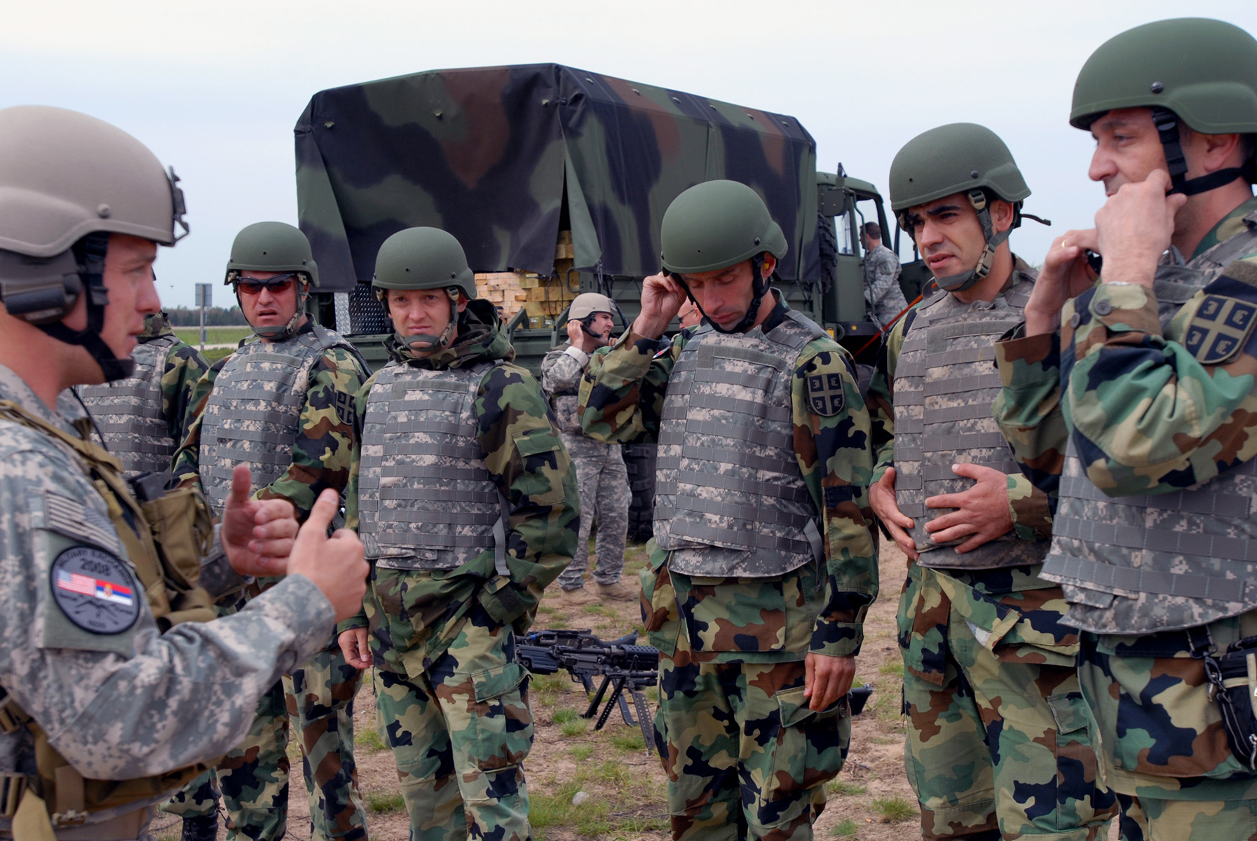 An Ohio National Guard Special Forces Soldier briefs the Serbian 63rd Parachutist Battalion, Special Forces Brigade, June 12 on a Camp Grayling, Mich., firing range. The Serbian troops were training with the Ohio Army National Guard's Company B, 2nd Battalion, 19th Special Forces Group, on mission planning, weapons systems, demolitions and airborne operations through an exchange with the National Guard Bureau State Partnership Program (SPP).